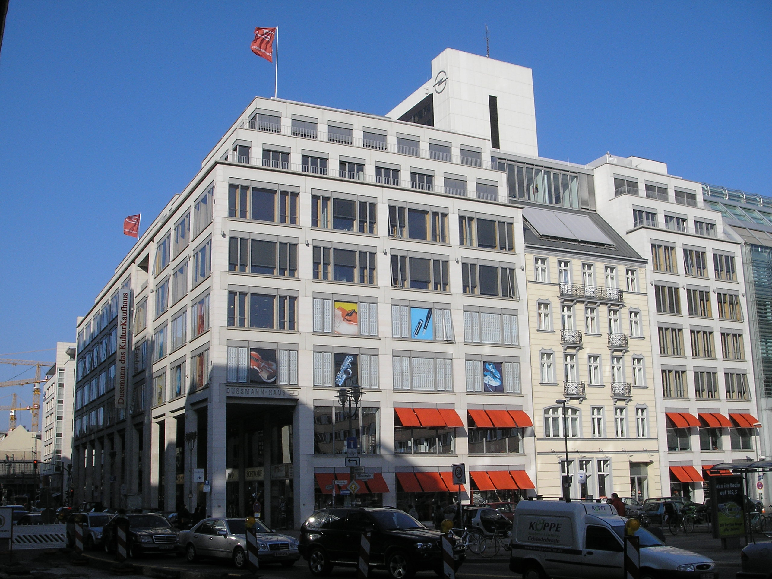 Description: Dussmann Kulturkaufhaus on Friedrichstraße in Berlin. Source: self-made, I release it into the public domain.